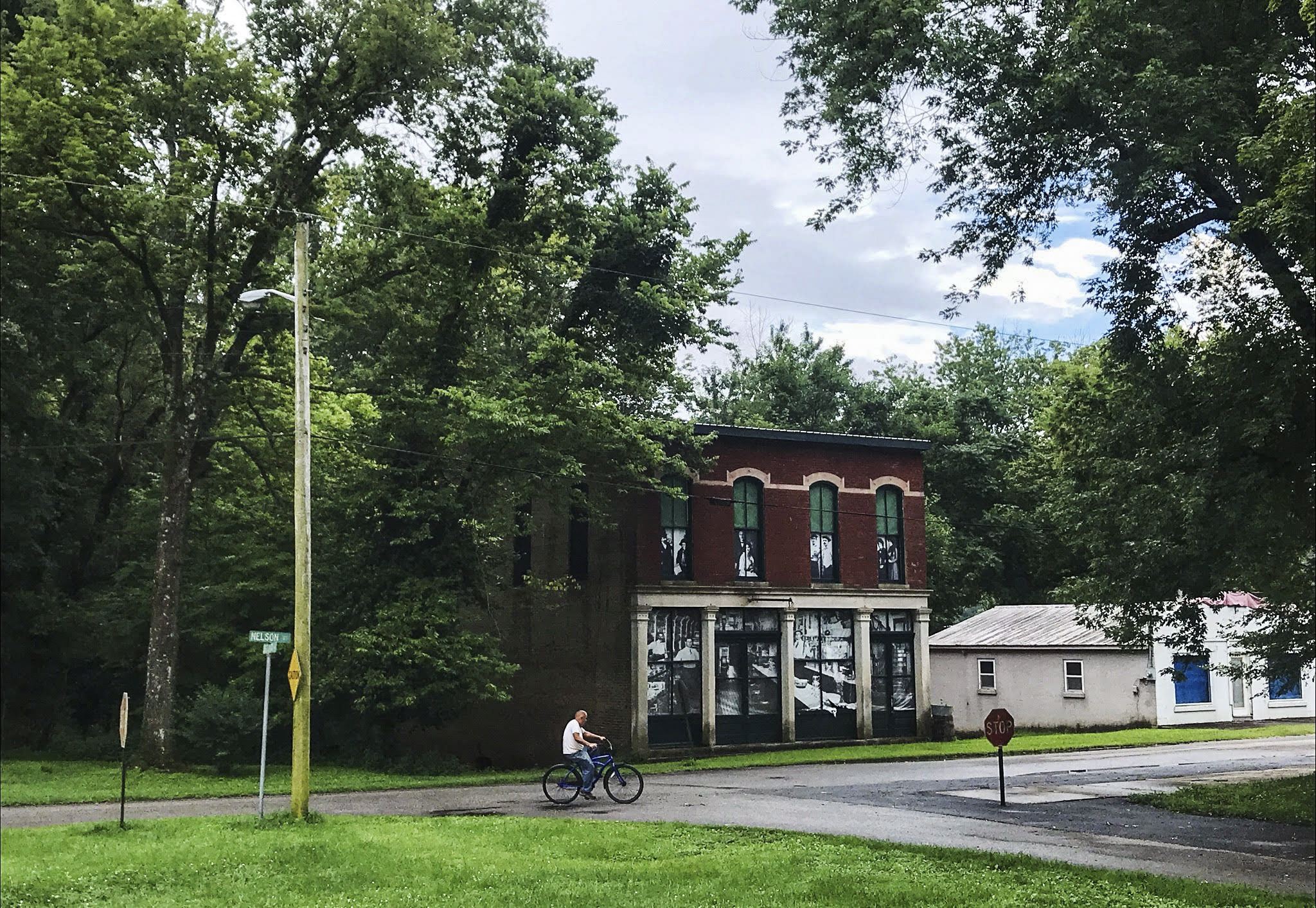 A man rides a bicycle near Nelson Street and Second Street on a summer day in Old Leavenworth, Indiana. The brick building is one of the few remaining original structures after the 1937 flood, which wiped out most of the original town. Leavenworth would be moved up the hill. The area now is a popular place for summer visitors who camp on the lots left behind.